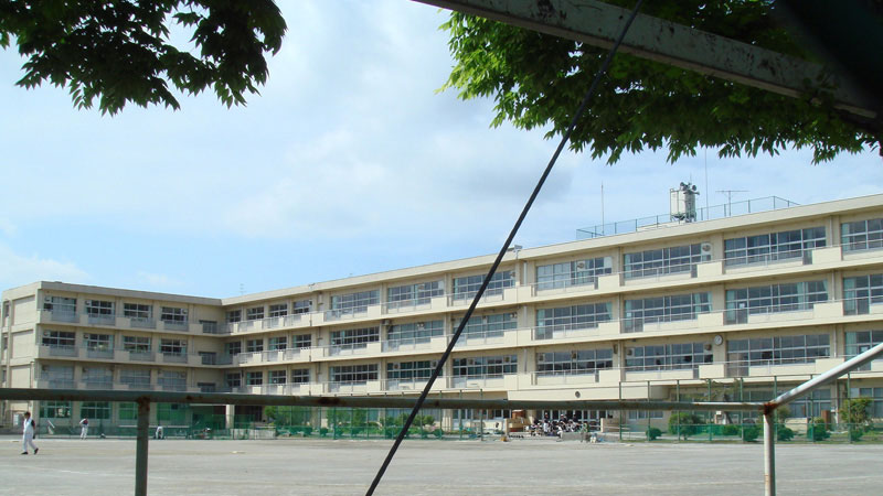 Tsurukawa-Second-Junior-High-School at Tsurukawa, Machida, TOKYO